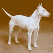 Photo of Ch. Haymarket Faultless, Best in Show at the Westminster Kennel Club Dog Show in 1918. Photograph would have been taken around the time of the victory.